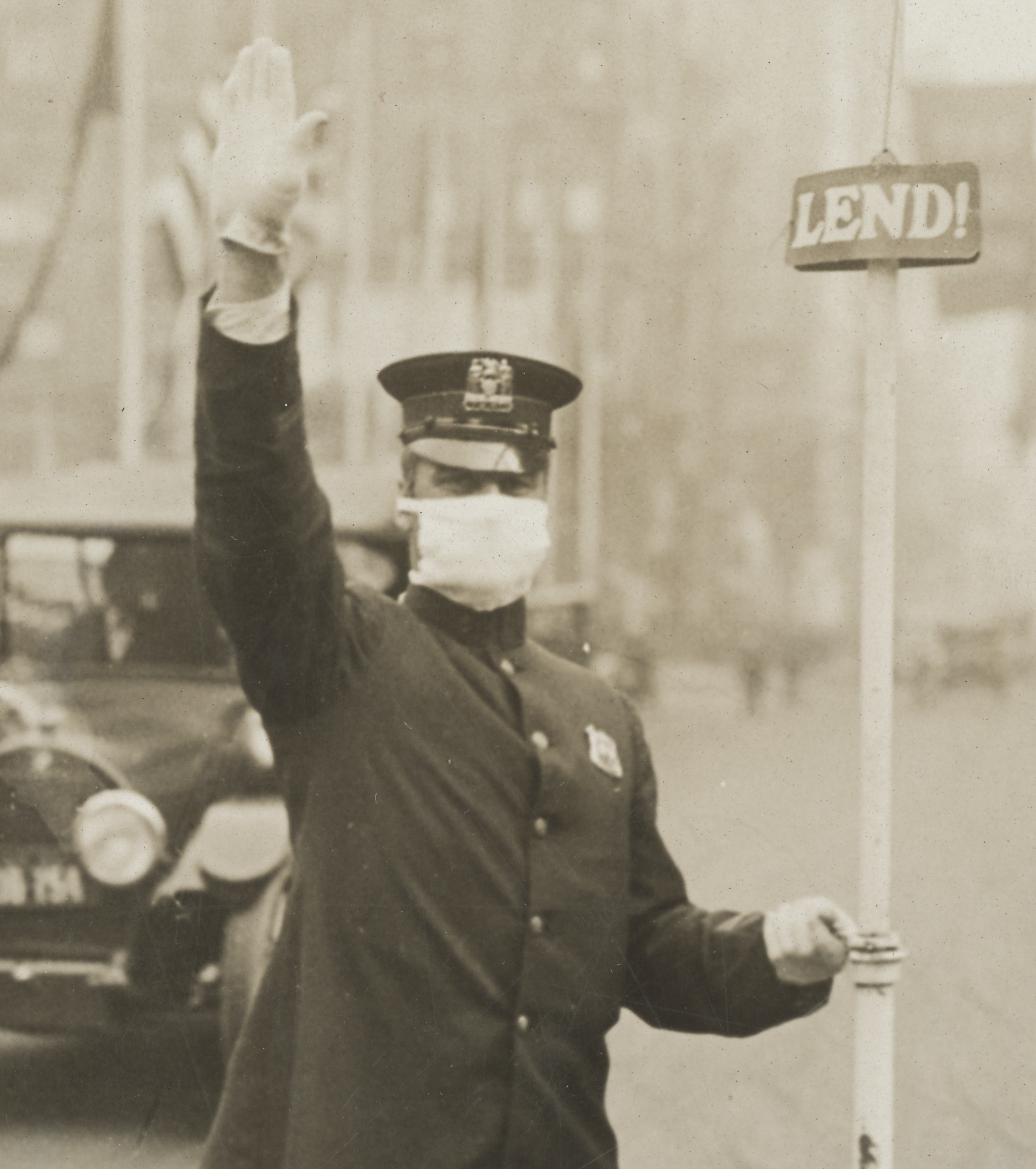 Scope and content: Date Taken: 10/16/1918